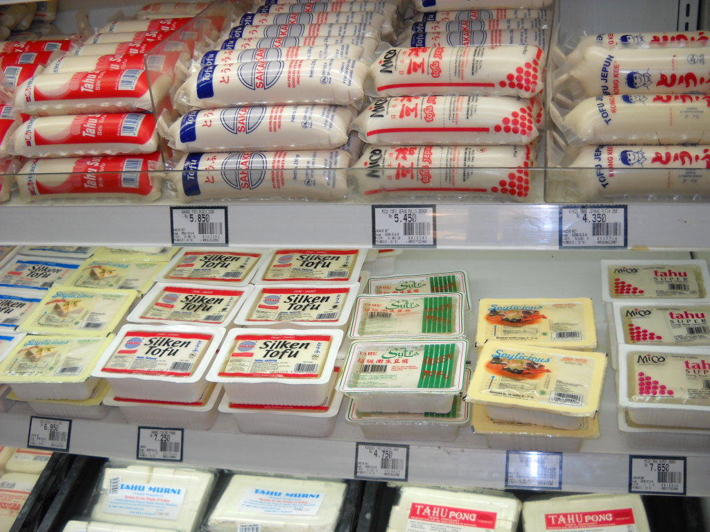 Various tofu products sold in a grocery store, Jakarta, Indonesia